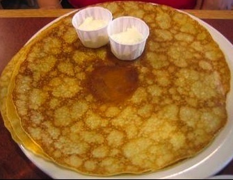 Orig Pancake house 49ers